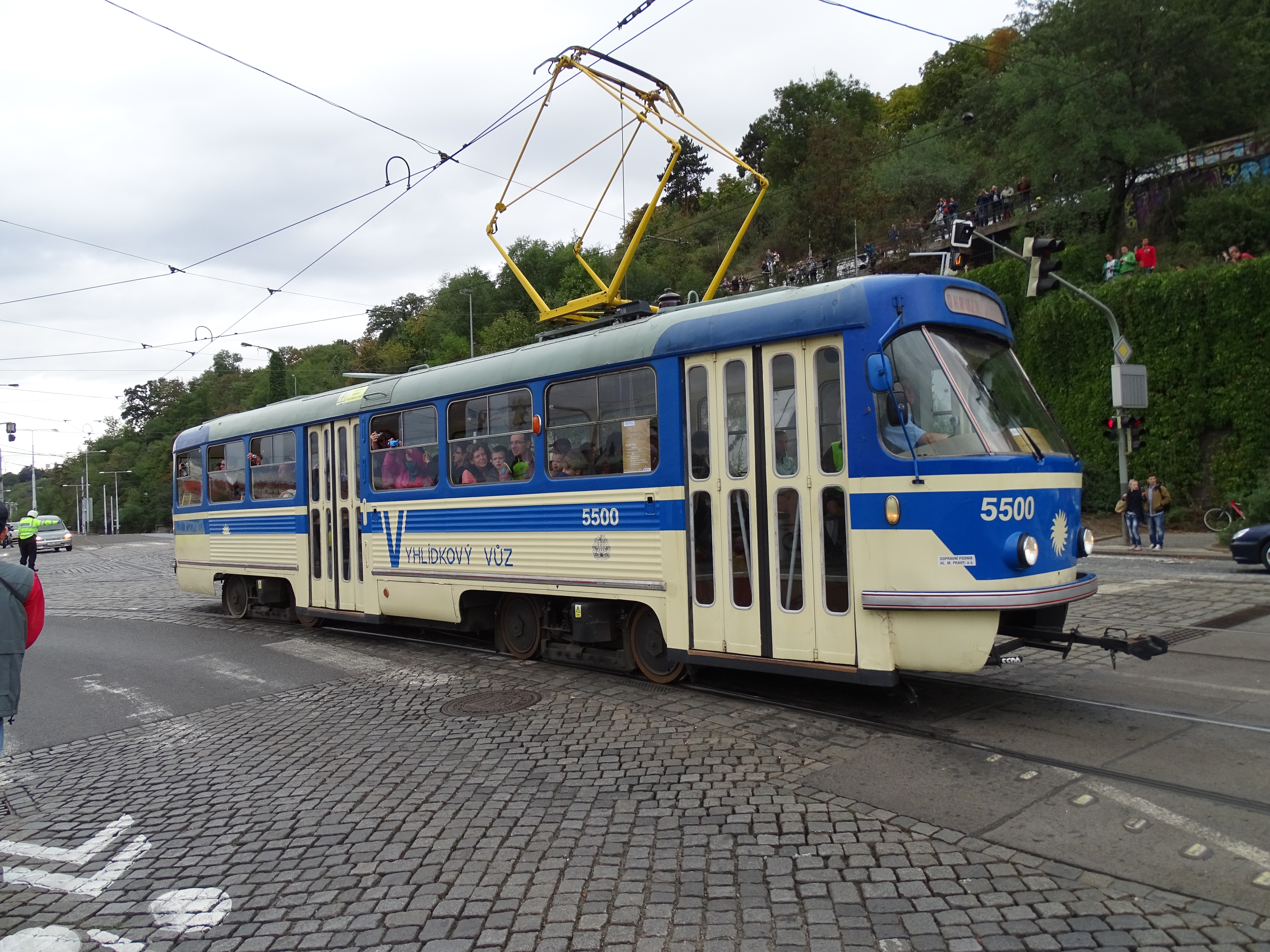 Prague-Holešovice, Czech Republic. Nábřeží Kapitána Jaroše, a tram parade, tram Tatra T4 #5500.